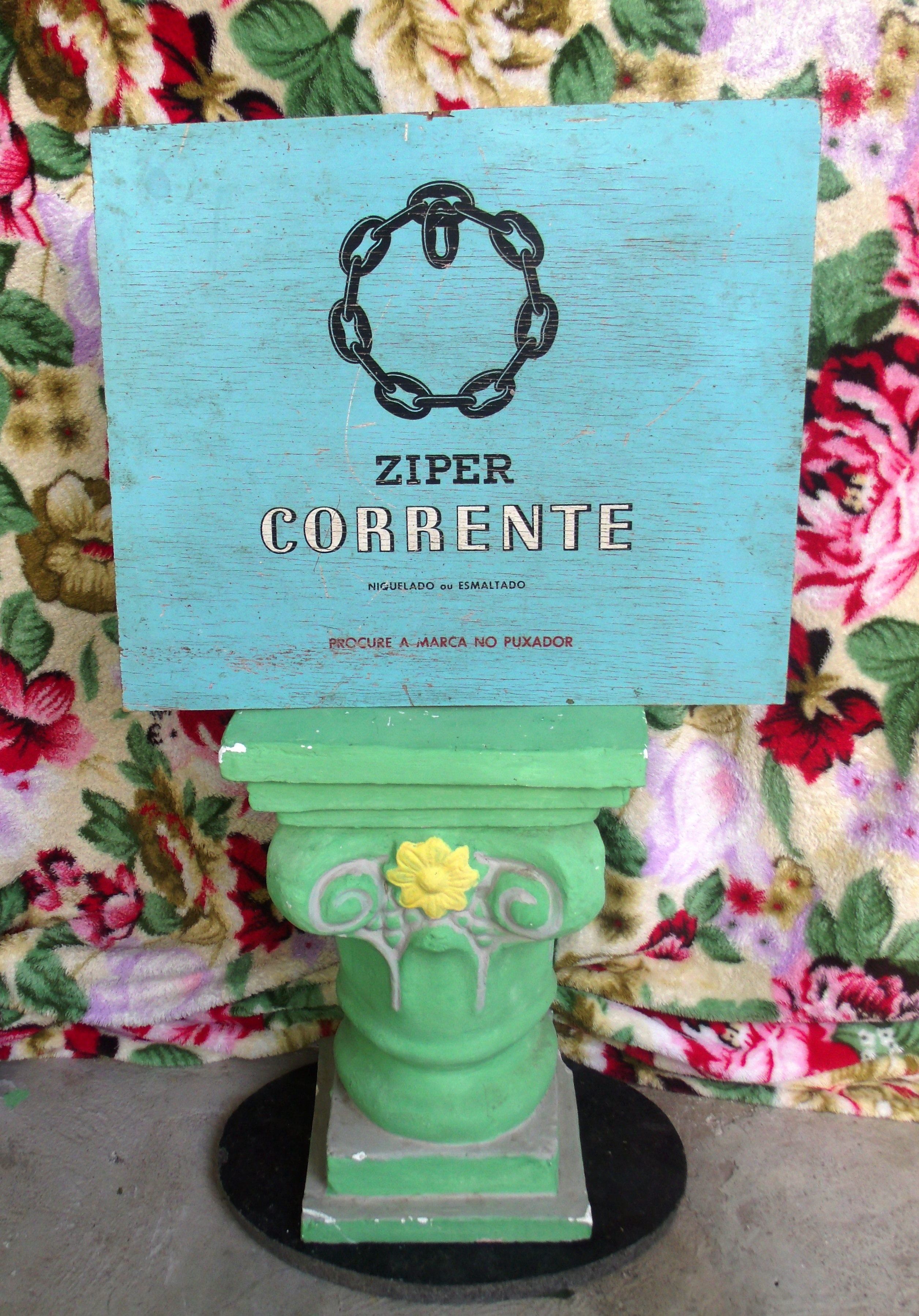 Coats Group in Brazil (vintage).